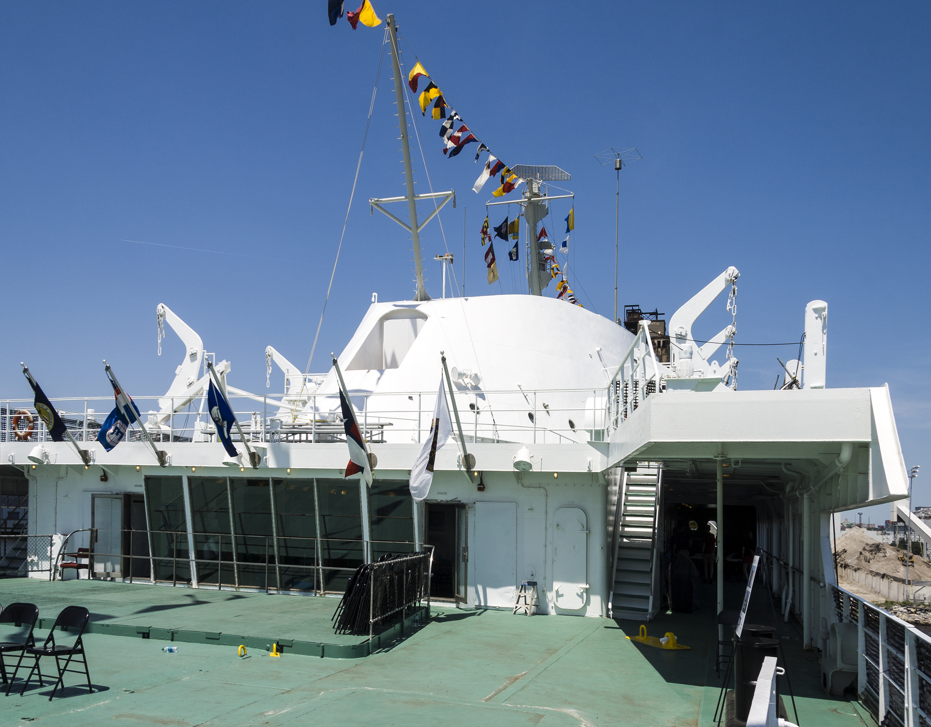 The veranda deck of the NS Savannah, with the now-covered swimming pool (enclosed by railing), at Baltimore, Maryland, USA